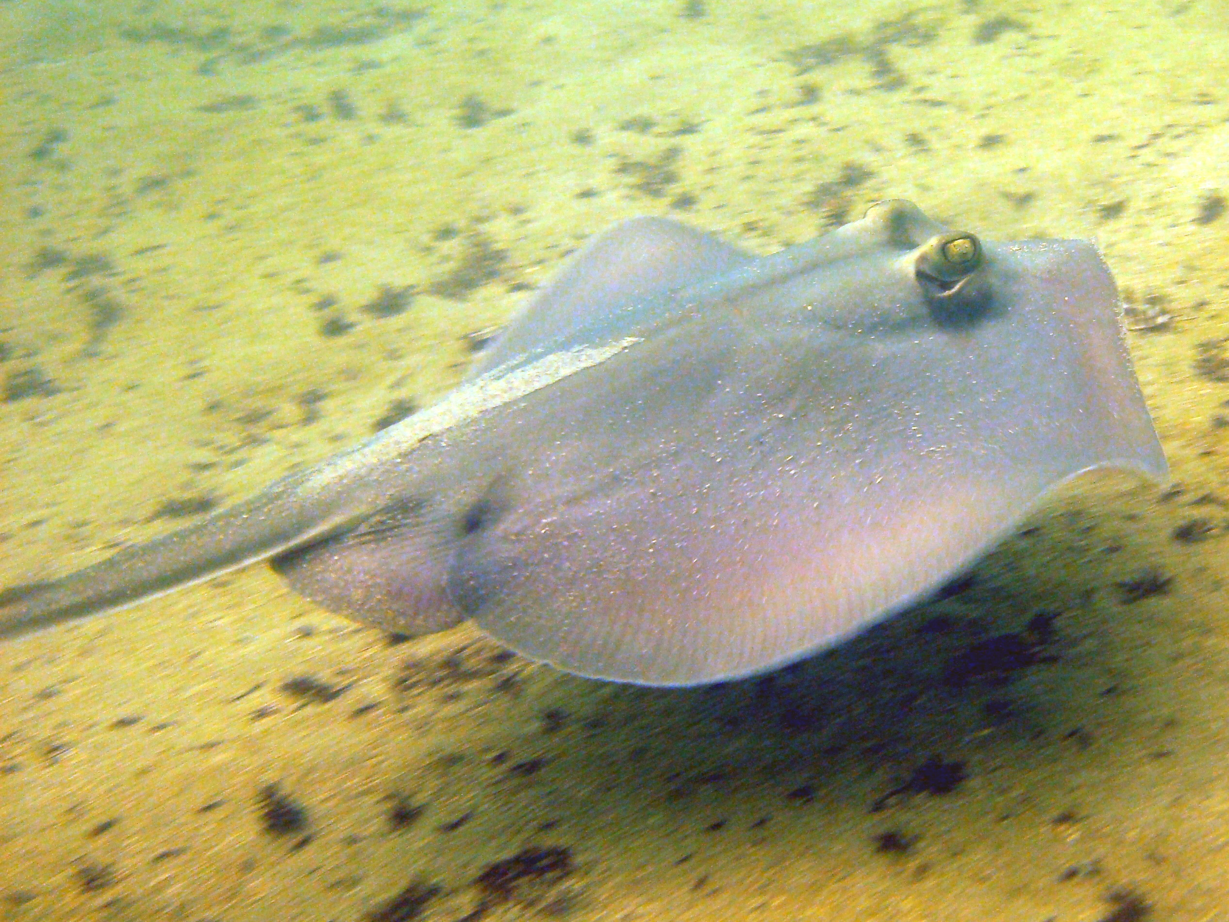 Kapala stingaree (Urolophus testacea) off Sydney